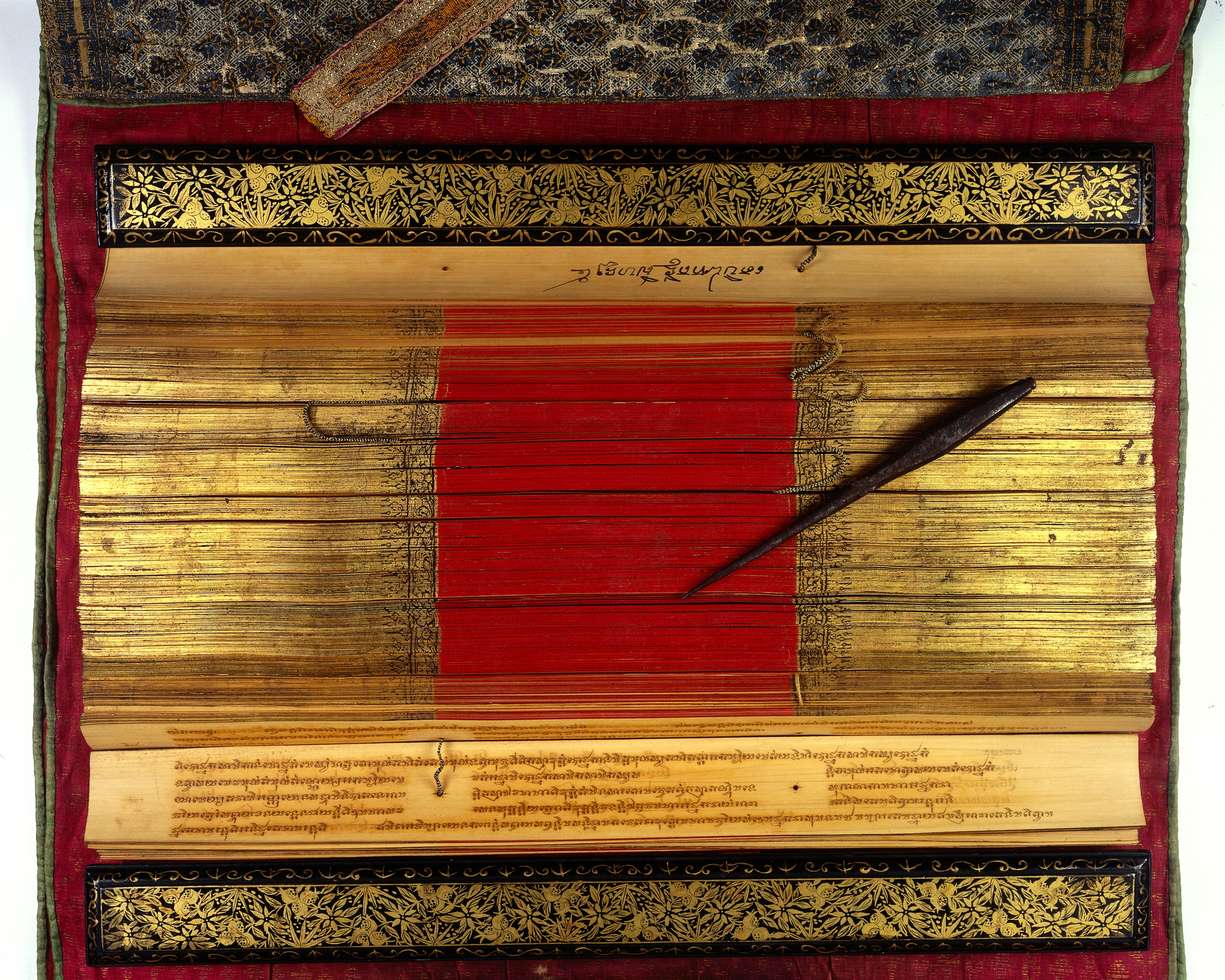 Thai Buddhist Manuscript inscribed on palm-leaves with a metal stylus. The cover boards are finely painted in gold on black lacquer with scrolling foliage. The fore-edge of the palm leaves is gilded with a centre band of vermillion bordered by a delicately patternered motif. Transcribed during the first half of the 19th century. Asian Collection Keywords: Buddhism; Buddhist